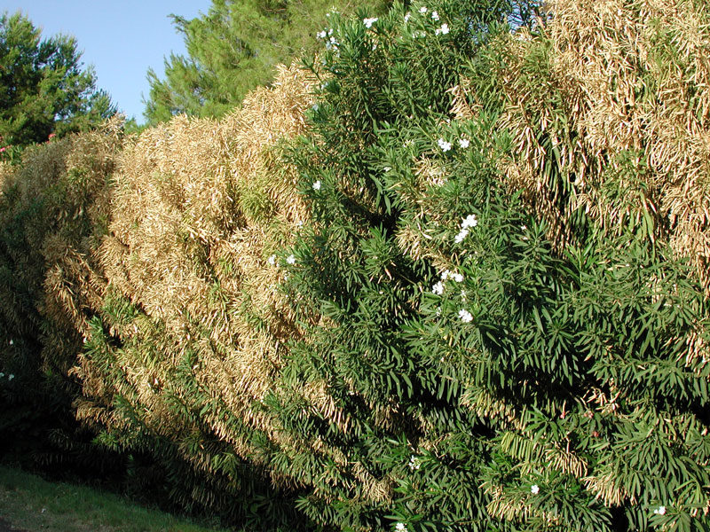 Nerium oleander infected with deadly strain of bacterium Xylella fastidiosa. From Phoenix, Maricopa Co., Arizona, USA.